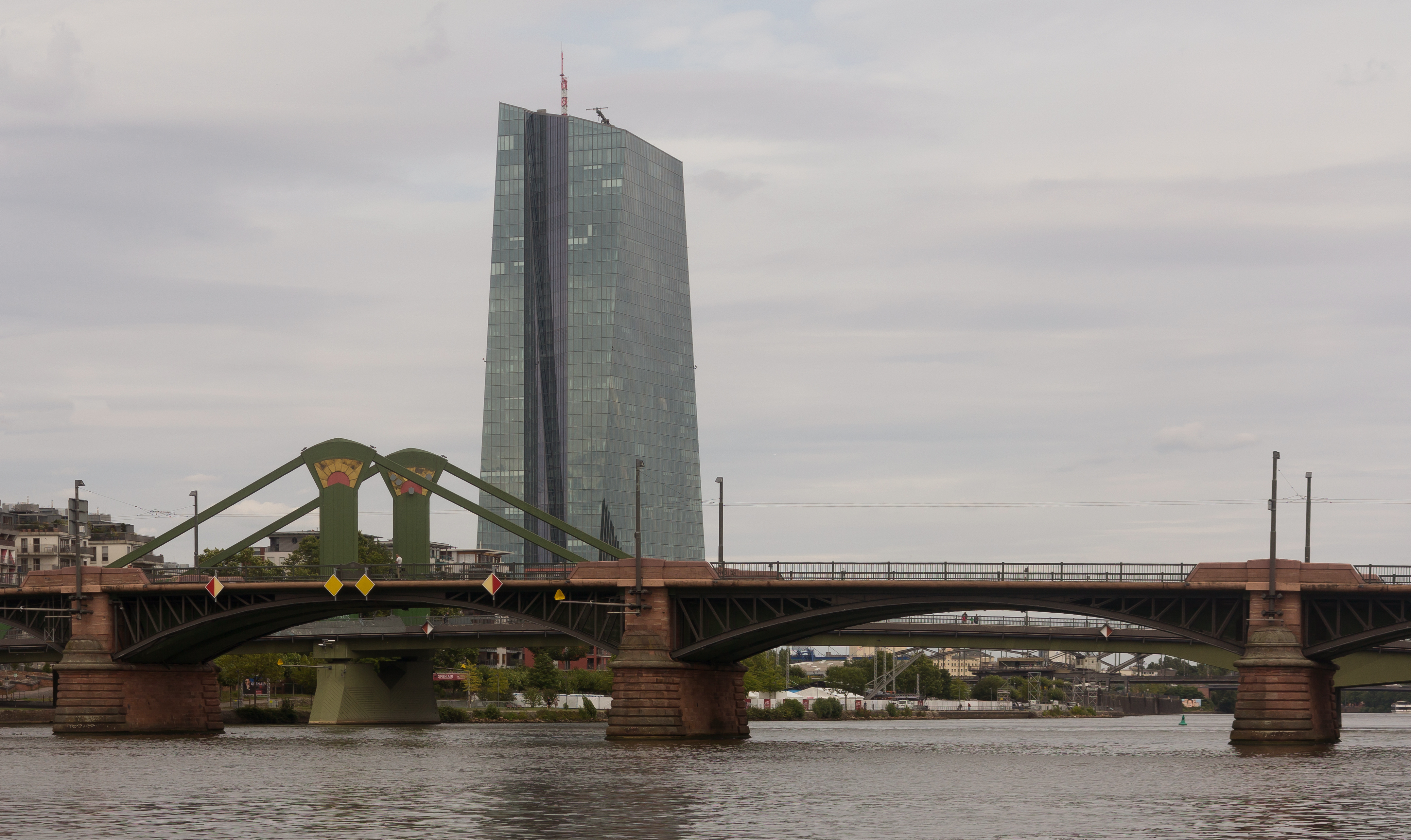 Frankfurt am Main, office building (die Europäische Zentralbank) from der Alte Mainbrücke